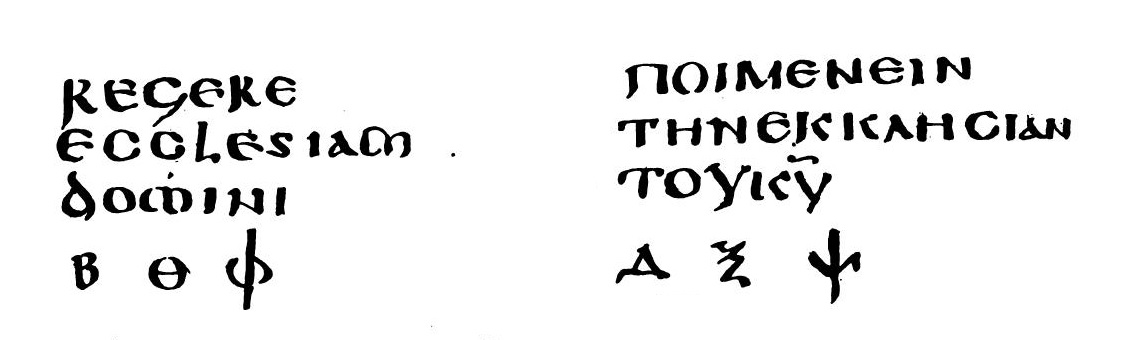 Scrivener's facsimile of the codex with text of the Acts 20:28; Scrivener published in the Third Edition of his "A Plain Introduction" (1874)